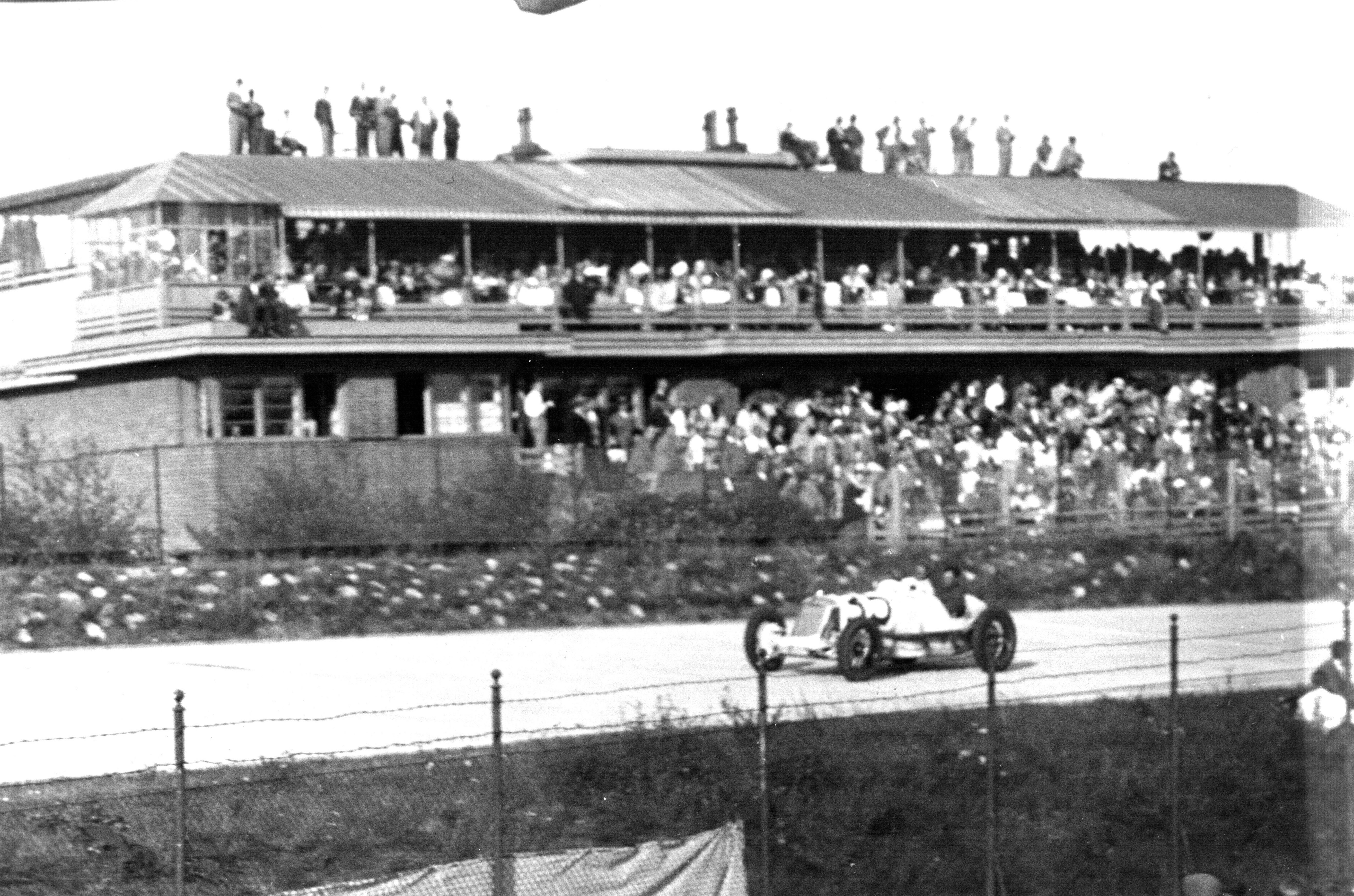 In 1931, after an interruption of five years, the ADAC had once again staged an automobile race on the Avus at Berlin. Maserati. The Avus was the fastest automobile race in Europe. The cars were racing along the open stretch at speeds of 230 km/h. On no other track were there such exceptionally high speeds as in Berlin, where the long Avus straights made such speeds possible. Az ADAC 1931 -ben, 5 év szünet után Berlinben, az AVUS pályán rendezte meg automobil versenyét. Ez a pálya volt a világ leggyorsabb pályája. Maserati. Ismeretlen fényképész felvétele, PD old. Sources: 1931 German Grand Prix Nürburgring Avus: (( Tags: AVUS Berlin ADAC 1931 Maserati automobile race Budapest Metapolisz